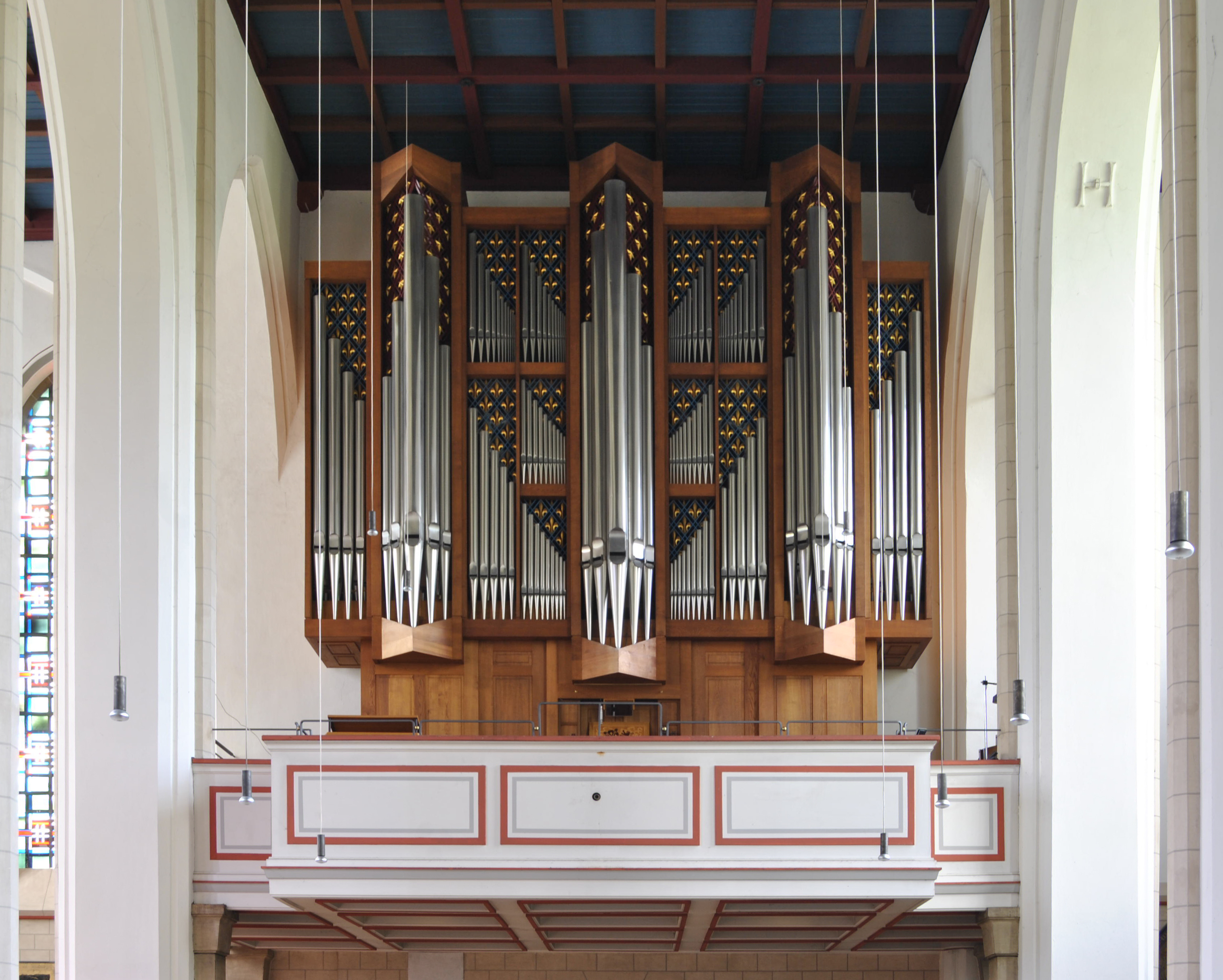 Duisburg (North Rhine-Westphalia, Germany) – borough Hamborn, district Alt-Hamborn – Hamborn Abbey – Saint Johann Abbey Church – interior – pipe organ This image shows a heritage building in Germany, located in the North Rhine-Westphalian city Duisburg (no. 75). This photograph was taken with a Nikon D3000